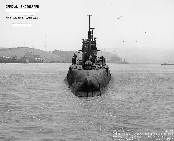 Stern view of the USS Sturgeon (SS-187) off the Mare Island Navy Yard, California, 3 May 1943. Original caption: “Photo # NH 99232 USS Sturgeon off the Mare Island Navy Yard, 3 May 1943” — removed caption